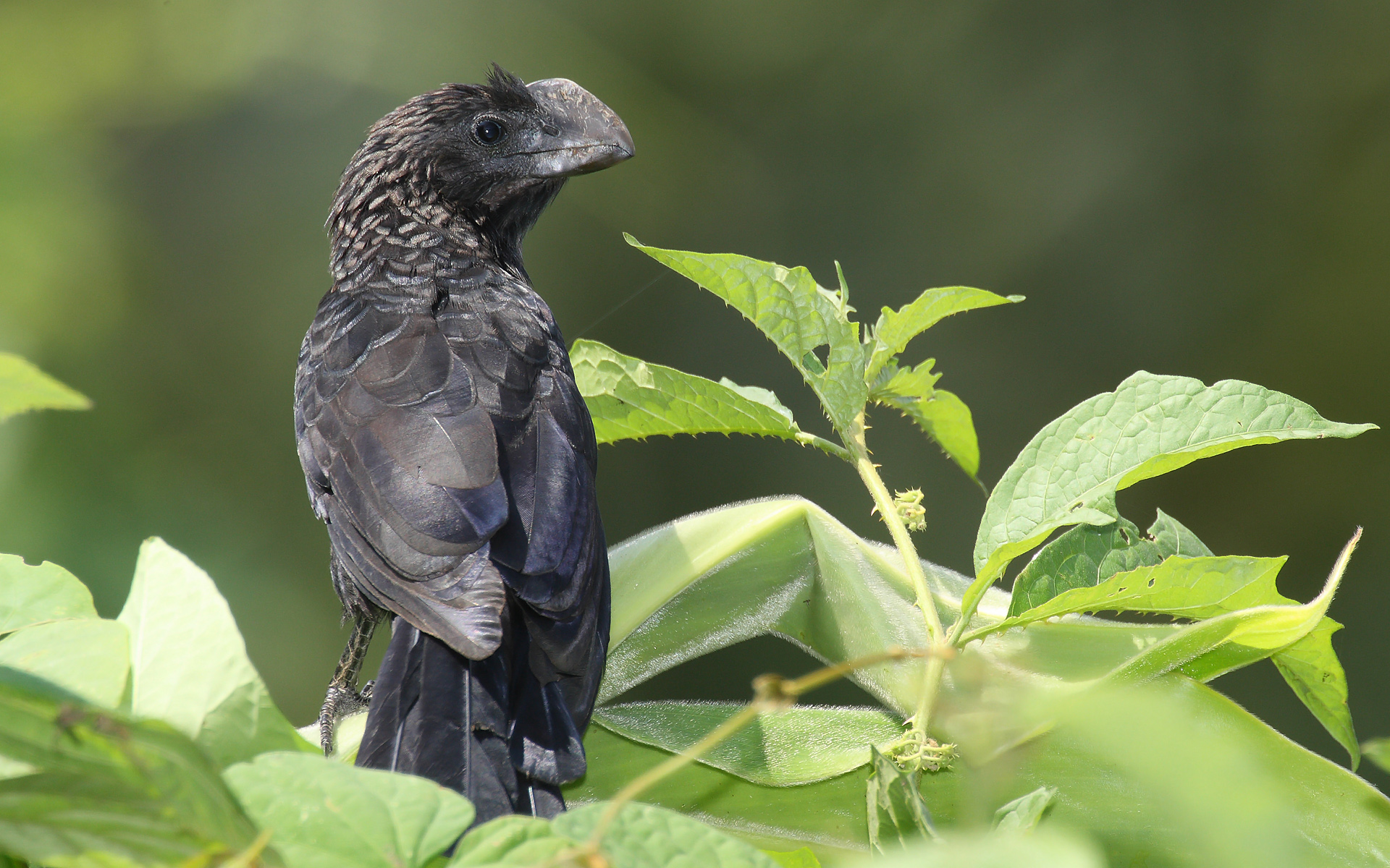 Smooth-billed Ani -- Parque Nacional Darién, Panama -- 2008 February